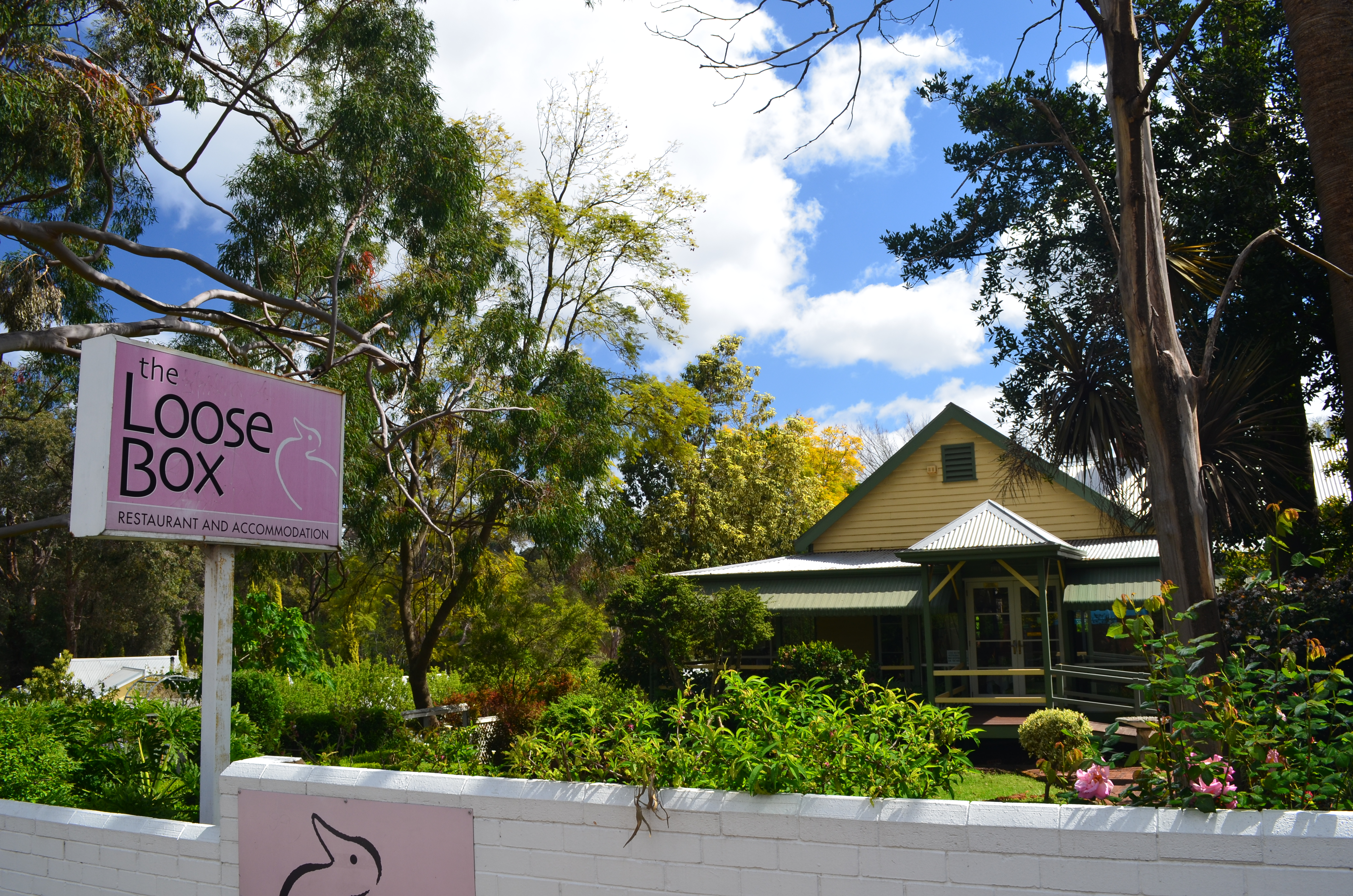 View of The Loose Box restaurant and accommodation in Mundaring, Western Australia, shortly after the restaurant's closure in July 2013.